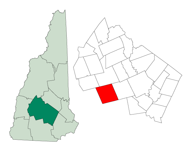 Map of a municipality in Merrimack County, New Hampshire